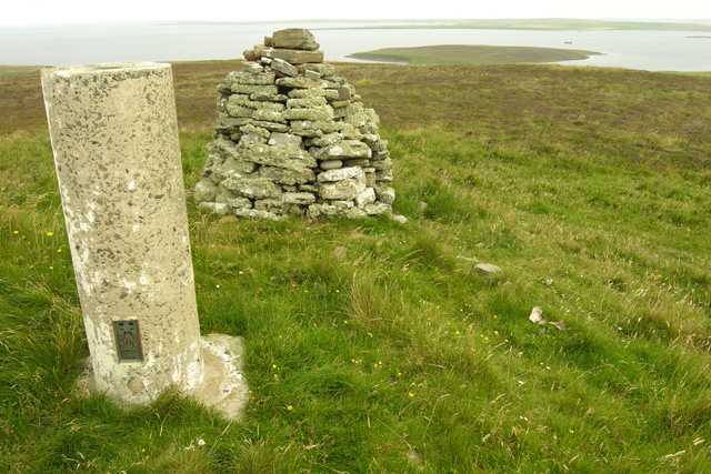 Trig Point and Cairn, highest point on Gairsay (102 metres) View looking east-north-east along high moorland ridge. Great and Arctic Skuas, with young, in attendance.